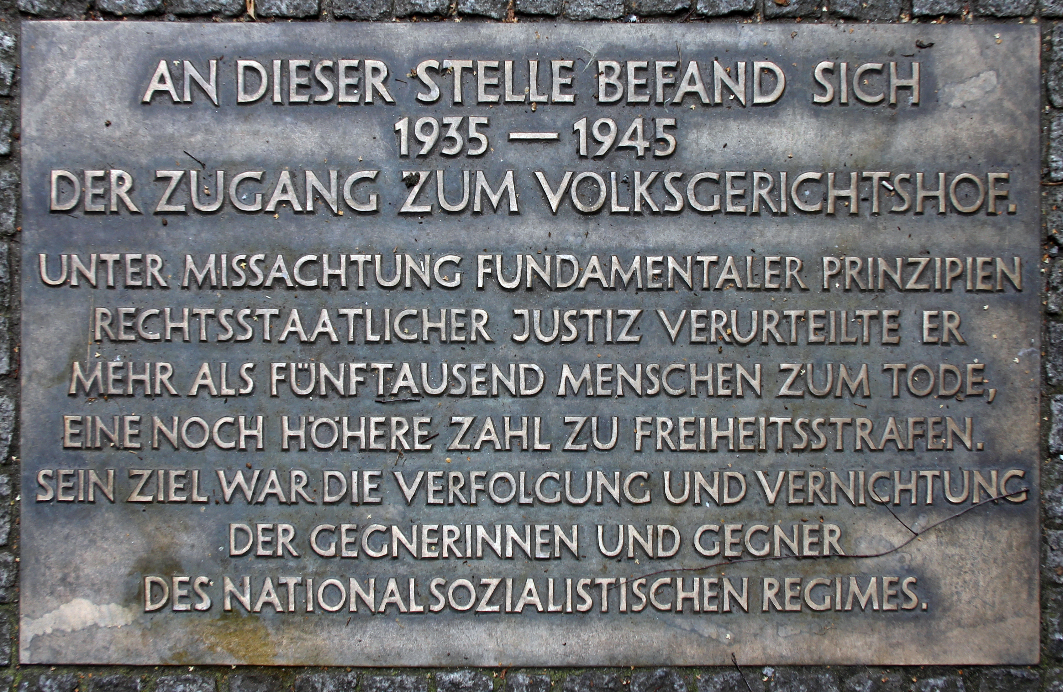 Memorial plaque, Volksgerichtshof, Bellevuestraße 3, Berlin-Tiergarten, Germany Translation The entrance to the Volksgerichtshof [People's Court of Justice] stood at this location (1935-1945). The court, in violation of fundamental principles of justice, condemned more than five thousand people to death and an even higher number to loss of freedom. Its goal was the destruction of opposition to the National Socialist [Nazi] regime.